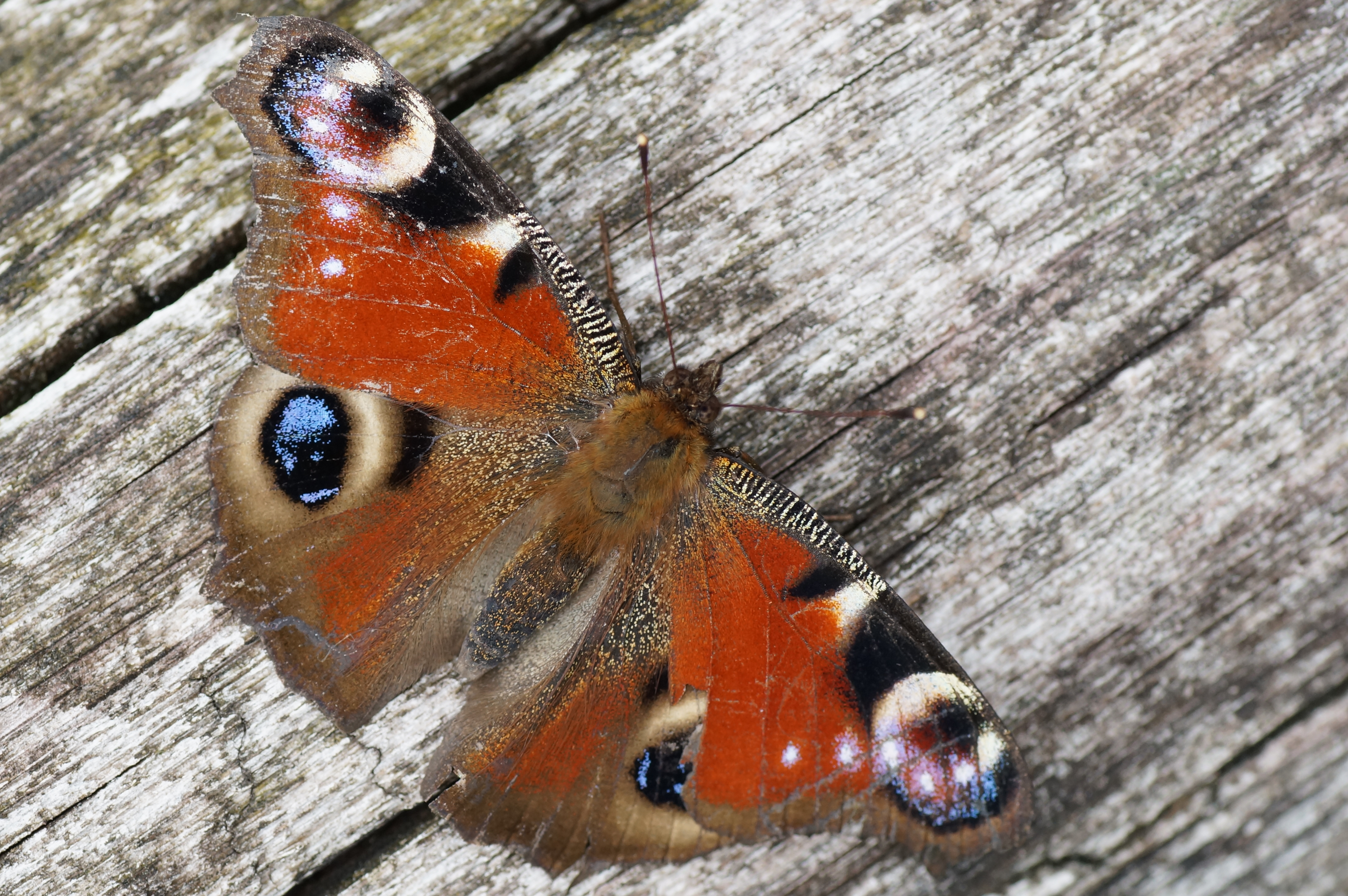 Inachis io in Austria siting on weathered wood.